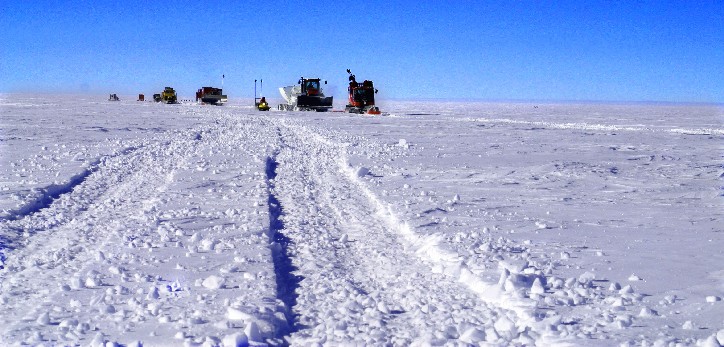 A caravan trekked nearly 110 tons (218,465 kilograms) of cargo from McMurdo station to the South Pole. The payload, which included two tractors, is equivalent to 11 loads of equipment and supplies aboard an LC-130 aircraft. The trip ended at McMurdo in January.